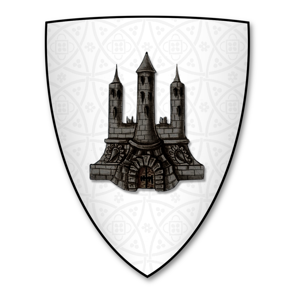 Armorial Bearings of the OLDCASTLE family of Oldcaste, Almely, Herefordshire. Of this ancient family, Sir John Oldcastle, Knt. was High Sheriff of Herefs. 7 Hen. IV., marrying Joane, granddaughter and heiress of the 2nd Baron Cobham. Arms: Argent a castle triple-towered sable. Strong, George (1848) The Heraldry of Herefordshire: Being a Collection of the Armorial Bearings of Families Which Have Been Seated in the County at Various Periods Down to the Present Time., London: Churton Press